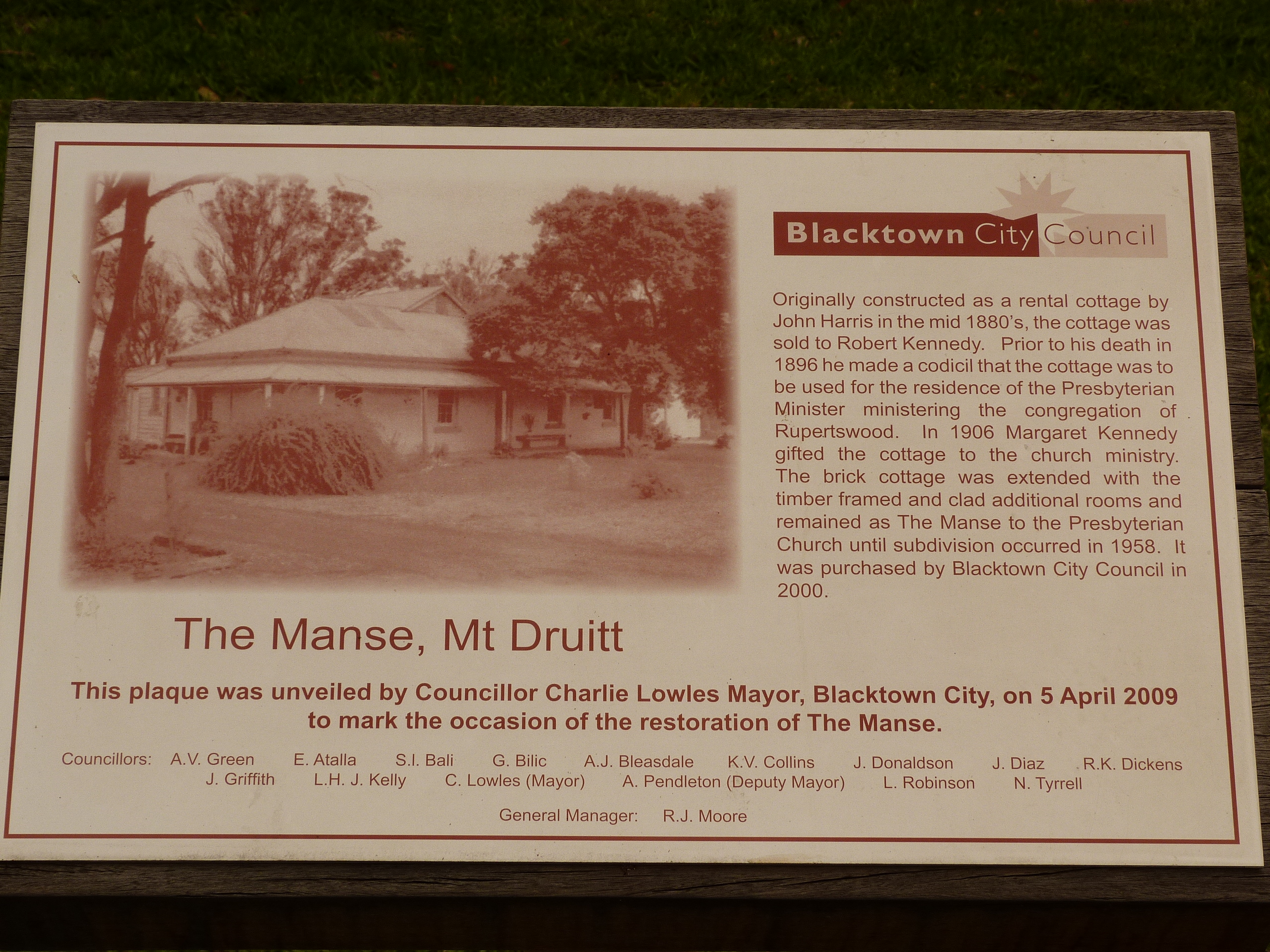 manse sign, mt druitt, sydney